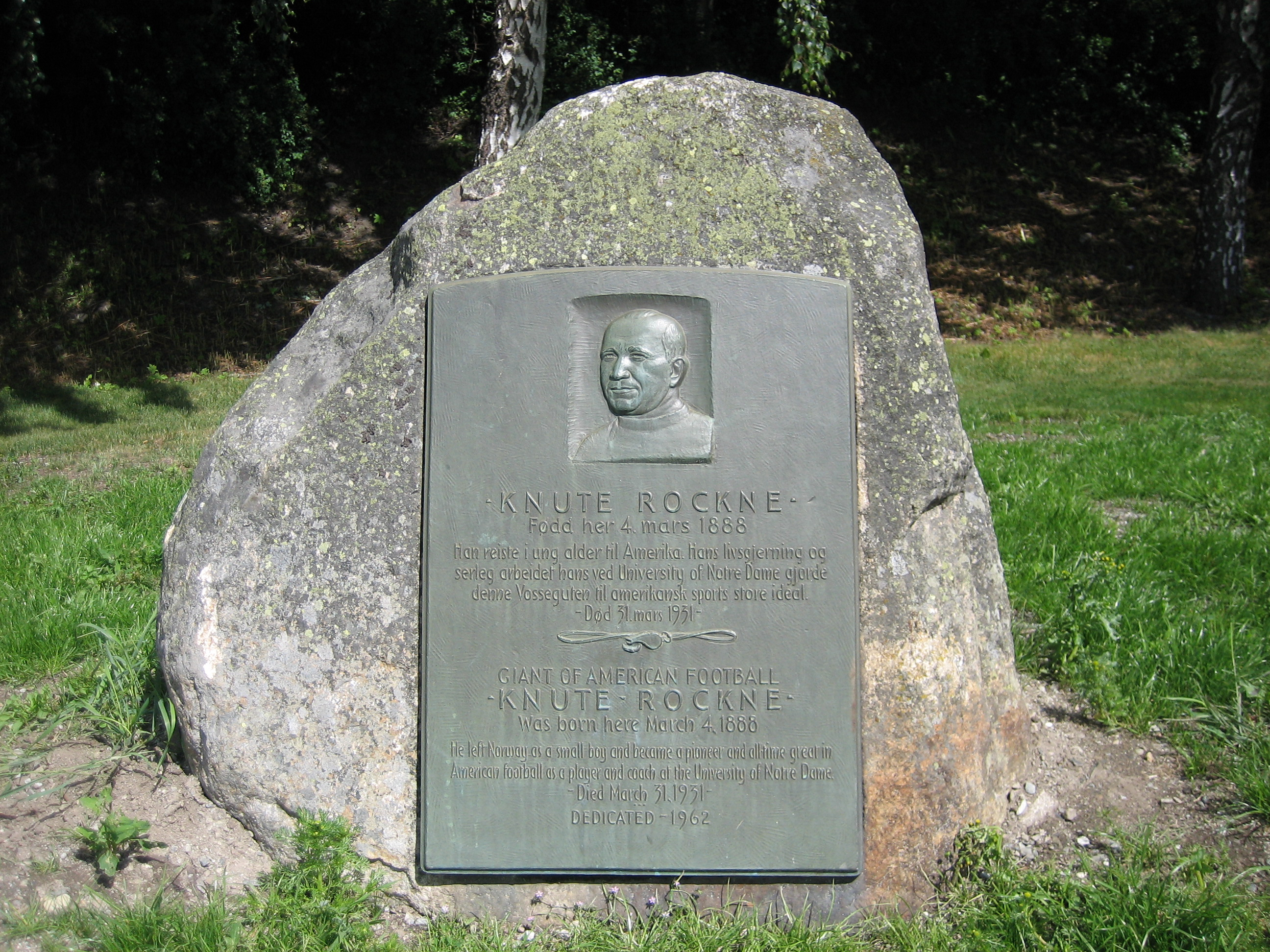 Memorial stone for American football player and coach Knute Rockne in his birth town of Voss in Norway.